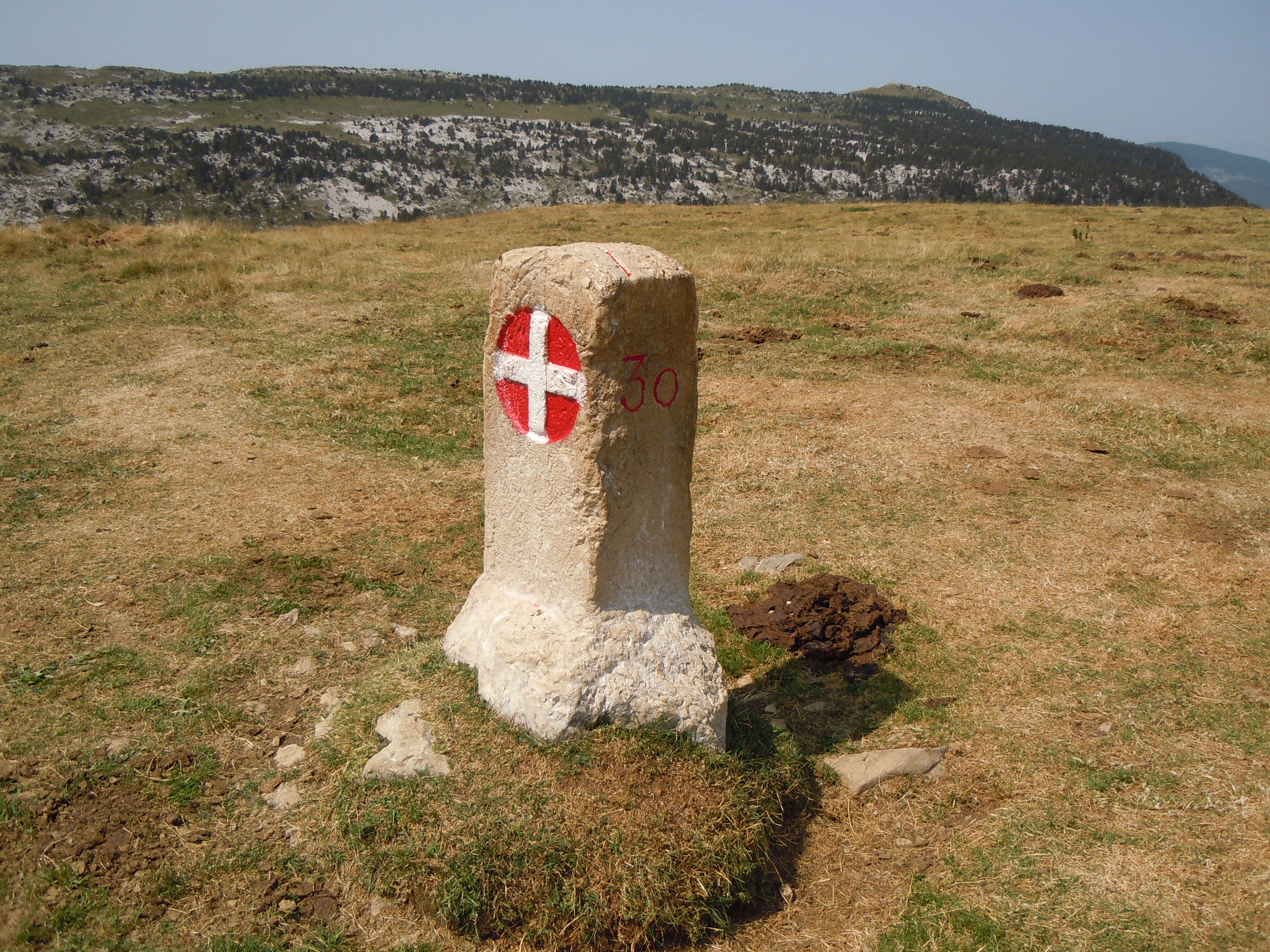 Savoie boundary stone n° 30 between Savoie and France at the "col de l'Alpe" mountain pass. In the background, the Rochers de Belles Ombres, commune of Sainte-Marie-du-Mont, Isère departement. Saint-Pierre-d'Entremont's territory is behind us on the left (south-west).